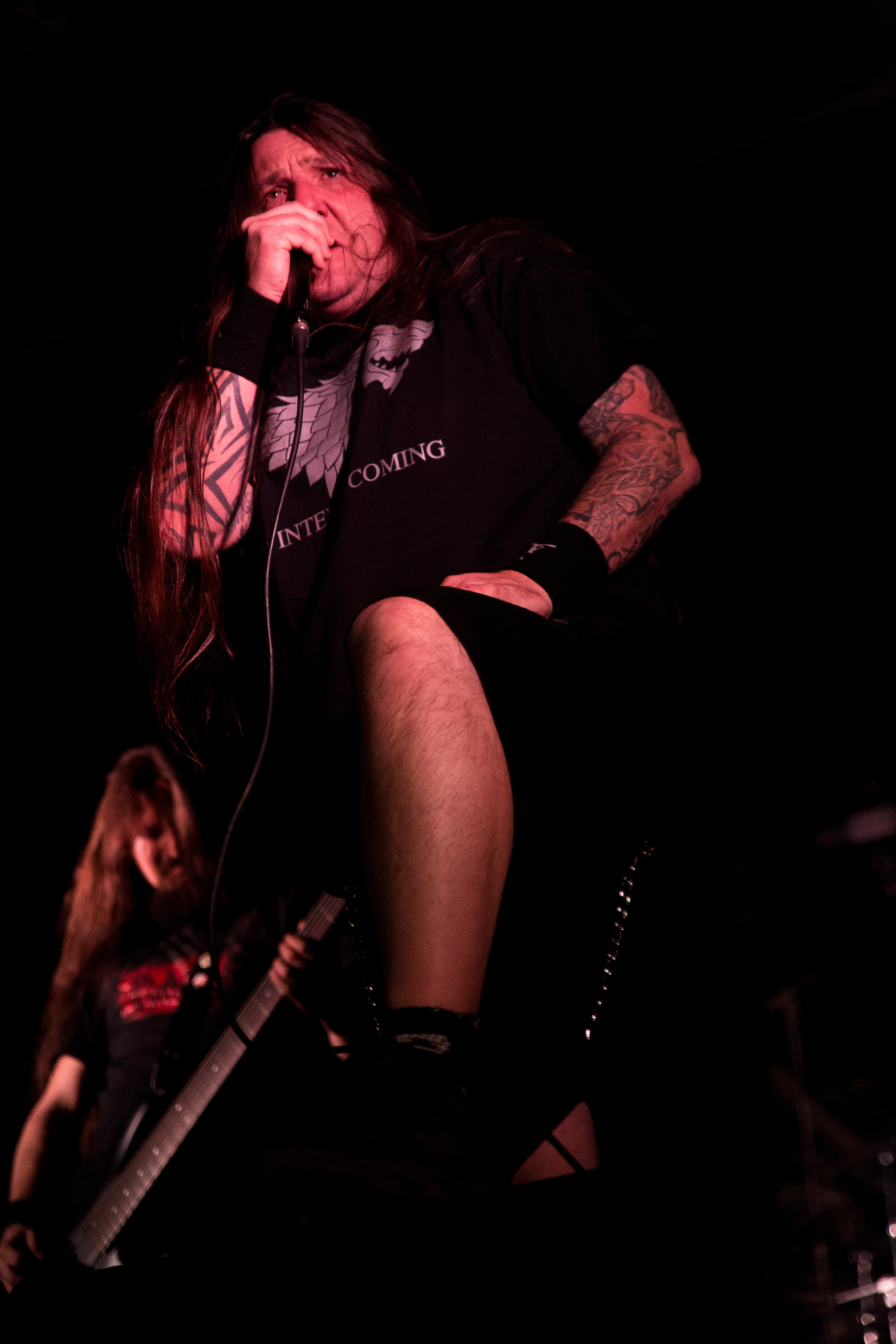 The Italian dark metal band Graveworm at the Dark Troll Open Air 2016 in Bornstedt/Germany.